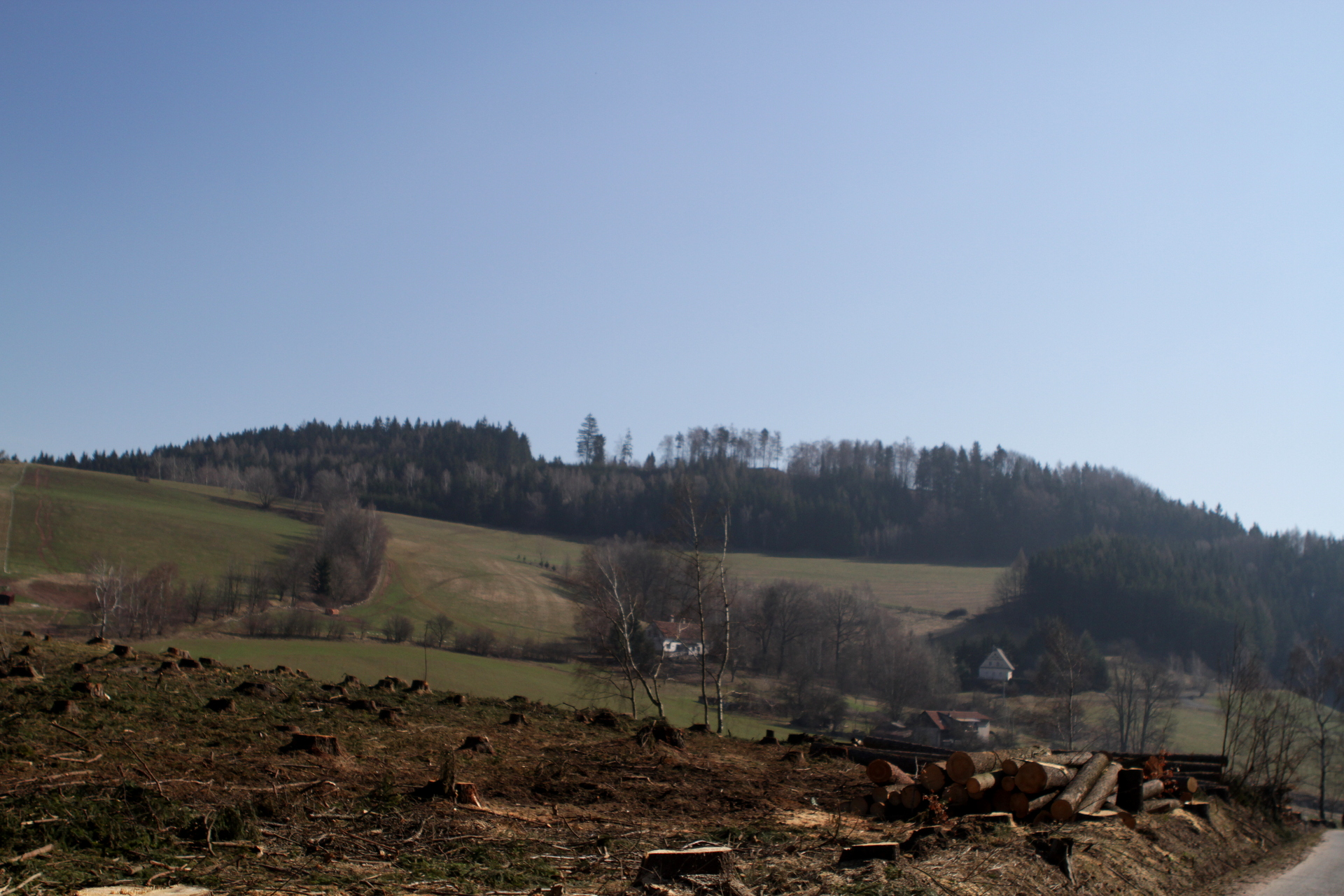 Turov Hill